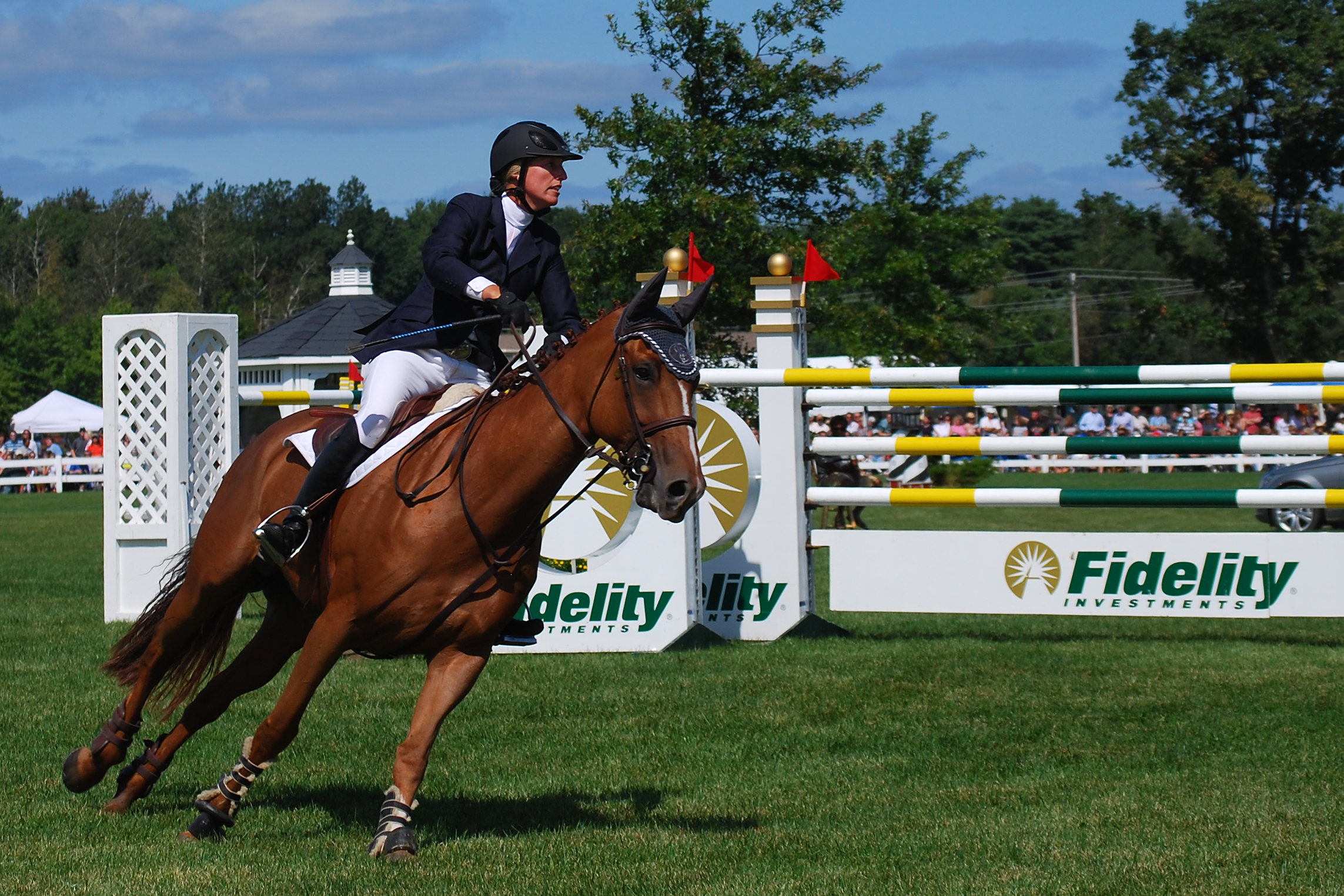 The 2008 Fidelity Investments Jumper Classic was held at the Silver Oak Equestrian Center, Hampton Falls, New Hampshire on September 7, 2008. Hurricane Hannah threatened but did not affect the final day's meet.